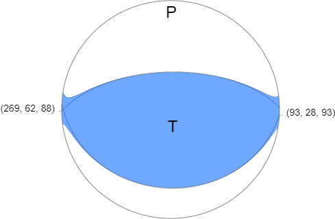 Beachball of the M6.9 earthquake that occurred on 5 August 2018 in Lombok, Indonesia